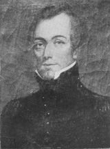 A picture of Isaac D. Barnard